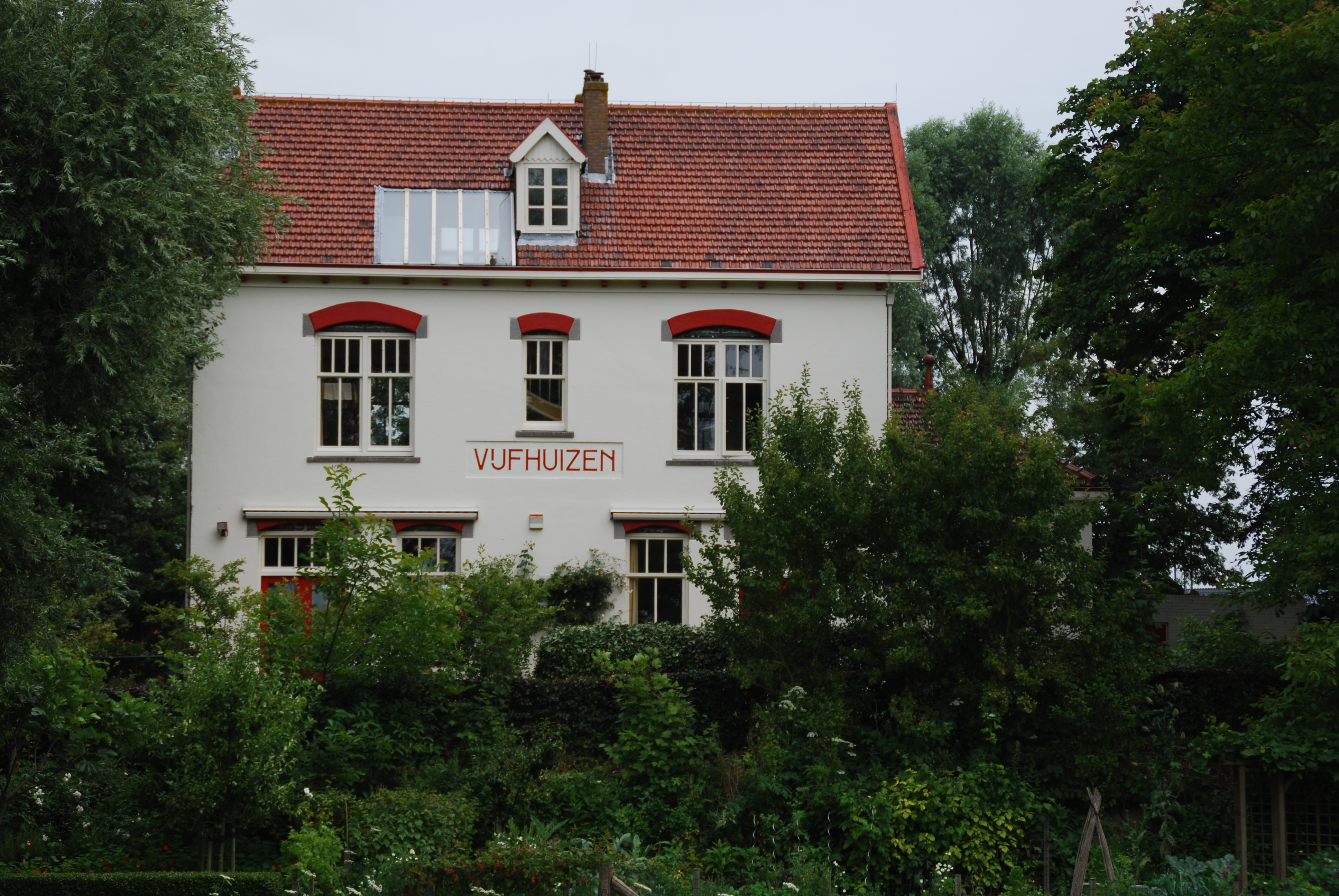 Station Vijfhuizen, The Netherlands